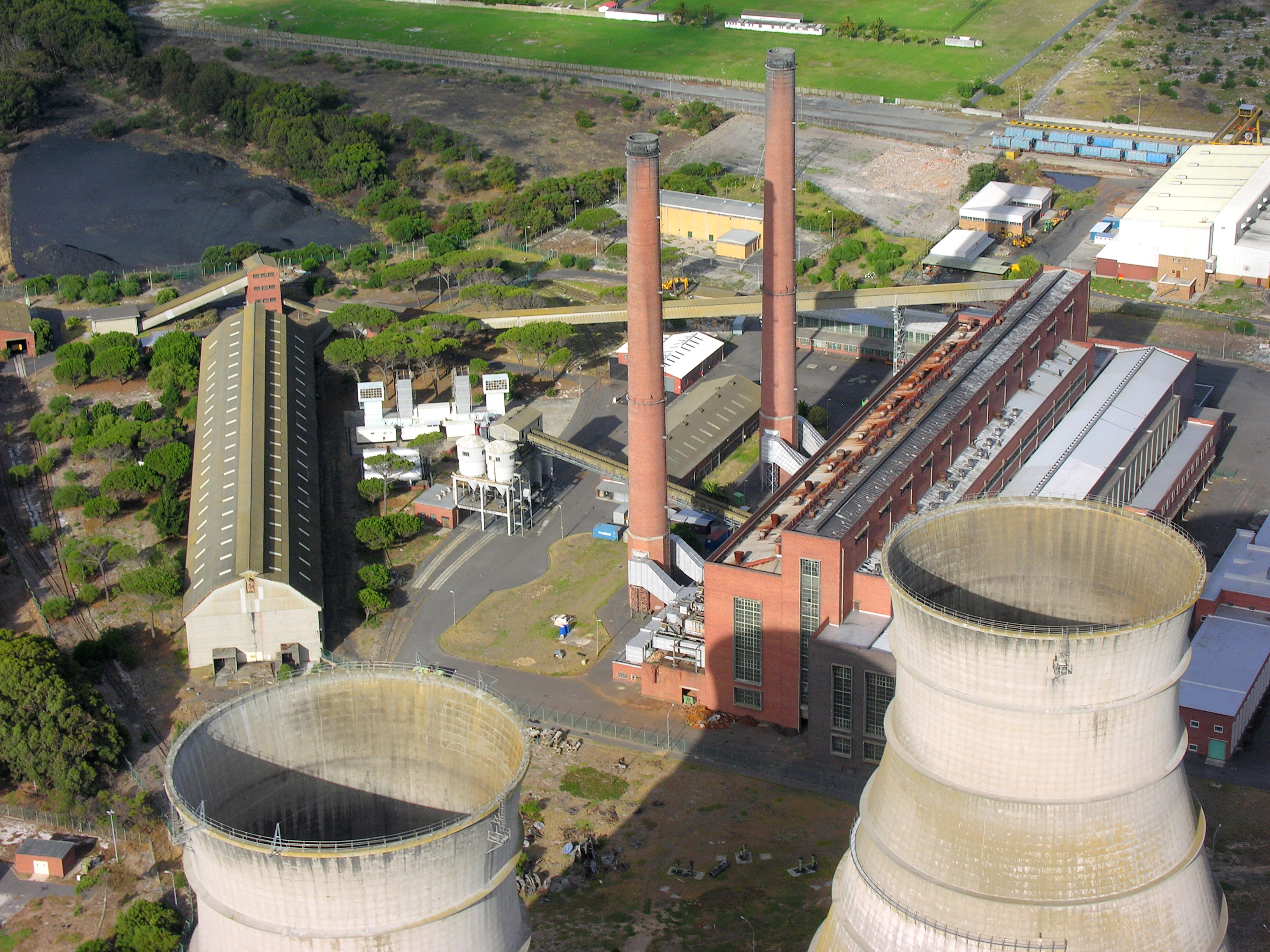 South Africa, Aerial views around Cape Town. For exact location see geocode.